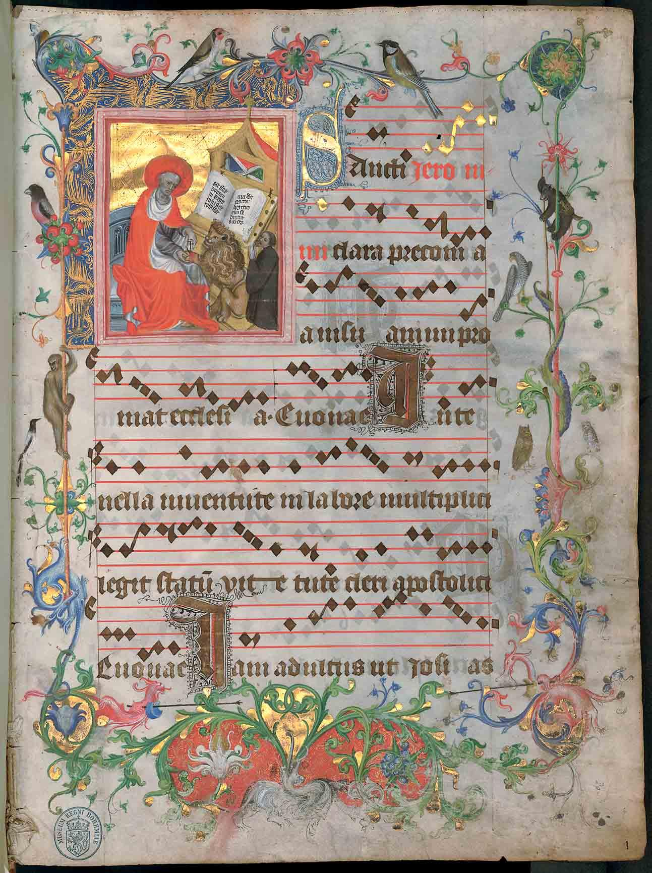 Officium of St. Jerome, Begin of 15th Century, Prague, Czech Republic, Portrait of Johannes von Tepl